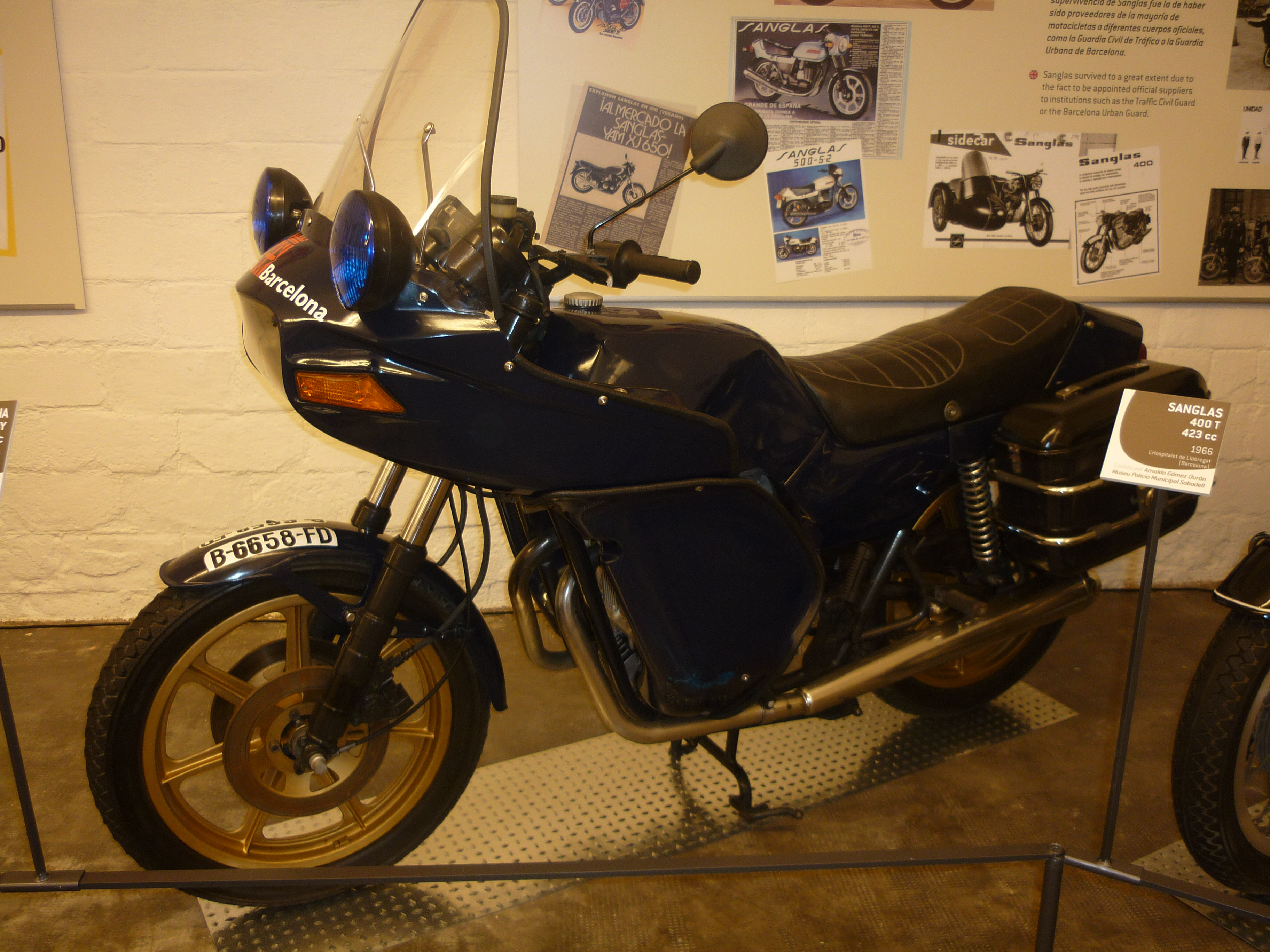 Sanglas-Yamaha 400Y 391cc (1982). Museu de la Moto de Barcelona (Catalonia).